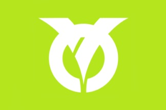 Flag of Sakahogi Gifu